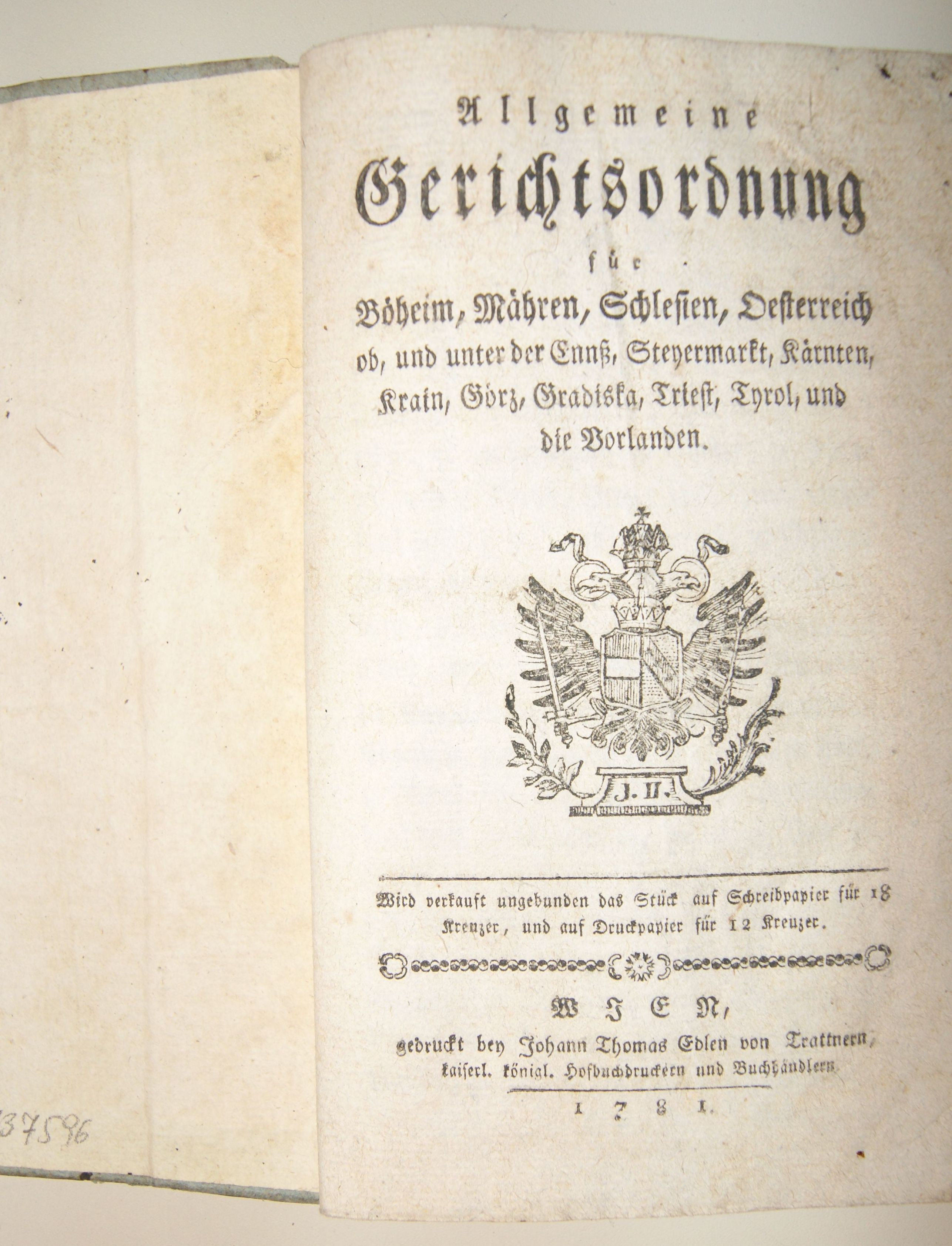 First book page from the General code of civil procedure (AGO, also: Josephinist code of civil procedure after Joseph II from Austria) of 5 January 1781 (JGS 1781/13). The law was applicable in Boehme, Moravia, Silesia, Upper Austria and Lower Austria, Steiermark, Carinthia, Krain, Gorizia, Gradiska, Trieste, Tyrol. The AGO was replaced on 1 January 1898 with the entry into force of the Austrian Code of Civil Procedure (ZPO). The book was printed in 1781. Photograph made in the Vorarlberger state library.